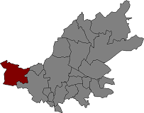 Location of Mont-ral in Alt Camp